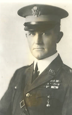 William Durward Conner, MG US Army